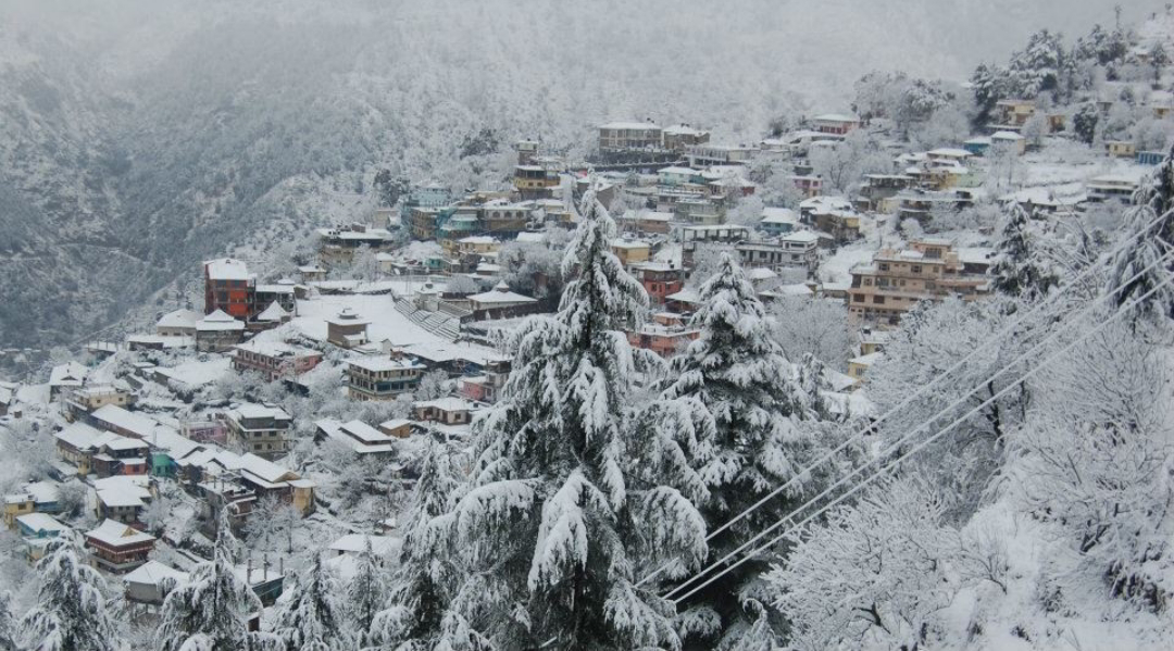 Kumarsain town receive snowfall after many years.